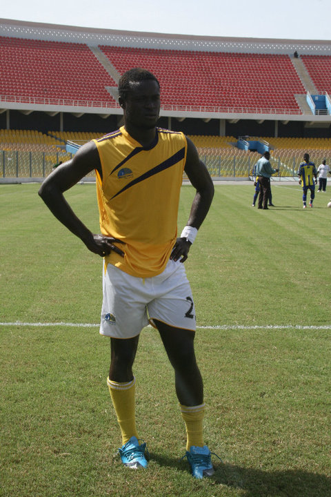 Hans Kwofie with Medeama SC. August 2015 Accra Sports Stadium Photographer email id